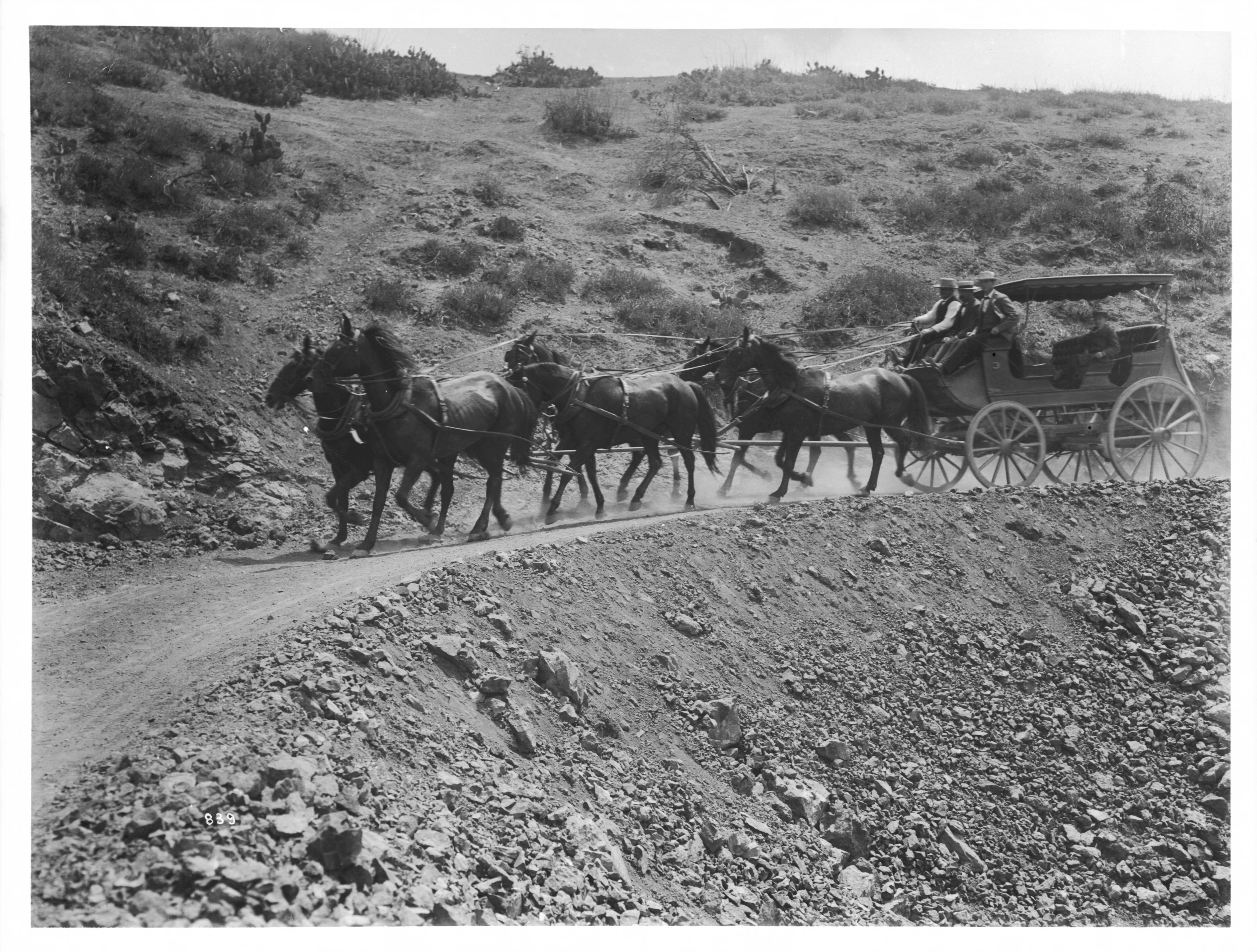 Captain Banning driving first stage on Santa Catalina Island, ca.1895-1900 Photograph of Captain Banning driving the first stage around Santa Catalina Island. There is a six-horse team. Two other men are sitting beside Banning. Another man is sitting in the coach. The coach is rounding a corner cut into the side of hilly terrain. Call number: CHS-839 Photographer: Pierce, C.C. (Charles C.), 1861-1946 Filename: CHS-839 Coverage date: circa 1895/1900 Part of collection: California Historical Society Collection, 1860-1960 Type: images Part of subcollection: Title Insurance and Trust, and C.C. Pierce Photography Collection, 1860-1960 Repository name: USC Libraries Special Collections Format: glass plate negatives Microfiche number: 1-26- Archival file: chs_Volume76/CHS-839.tiff Repository address: Doheny Memorial Library, Los Angeles, CA 90089-0189 Geographic subject (country): USA Format (aacr2): 2 photographs : glass photonegative, photoprint, b&w ; 17 x 22 cm. Rights: Digitally reproduced by the USC Digital Library; From the California Historical Society Collection at the University of Southern California Subject (adlf): roadways Project: USC Accession number: 839 Repository Contributing entity: California Historical Society Date created: circa 1895/1900 Publisher (of the digital version): University of Southern California. Libraries Format (aat): photographic prints; photographs Subject (file heading): Transportation -- Draft -- Stage coaches Legacy record ID: chs-m11816; USC-1-1-1-11968 Geographic subject: islands: Santa Catalina Island Access conditions: Send requests to address or e-mail given. Phone (213) 821-2366; fax (213) 740-2343. Geographic subject (county): Los Angeles; California Subject (lcsh): Coaching; Horses; Islands Subject: Banning, Captain